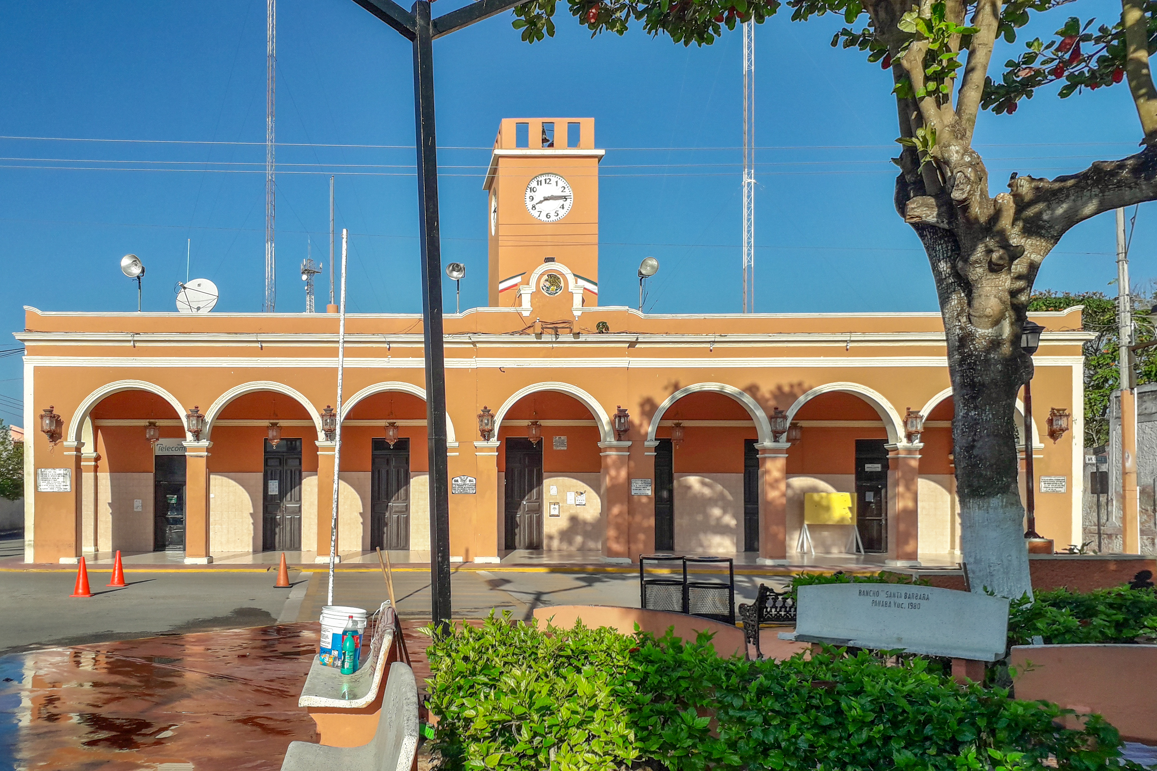 City Hall in Panaba, Yucatan